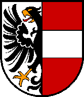 Coats of arms of Telfs, Tyrol, Austria